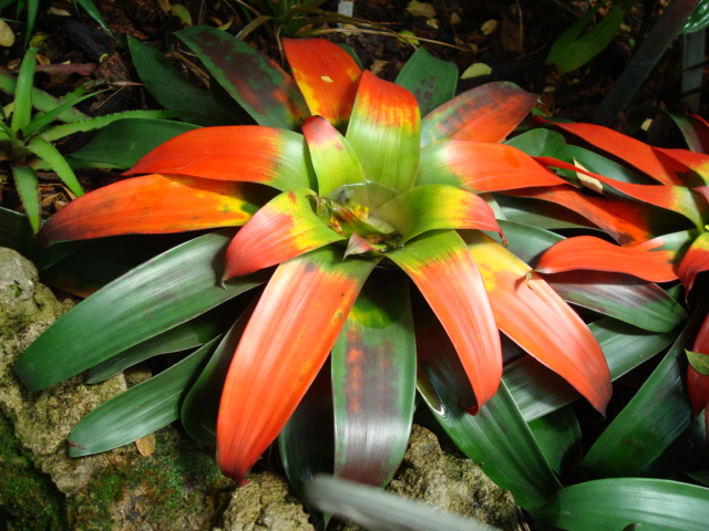 Picture of Guzmania sanguinea